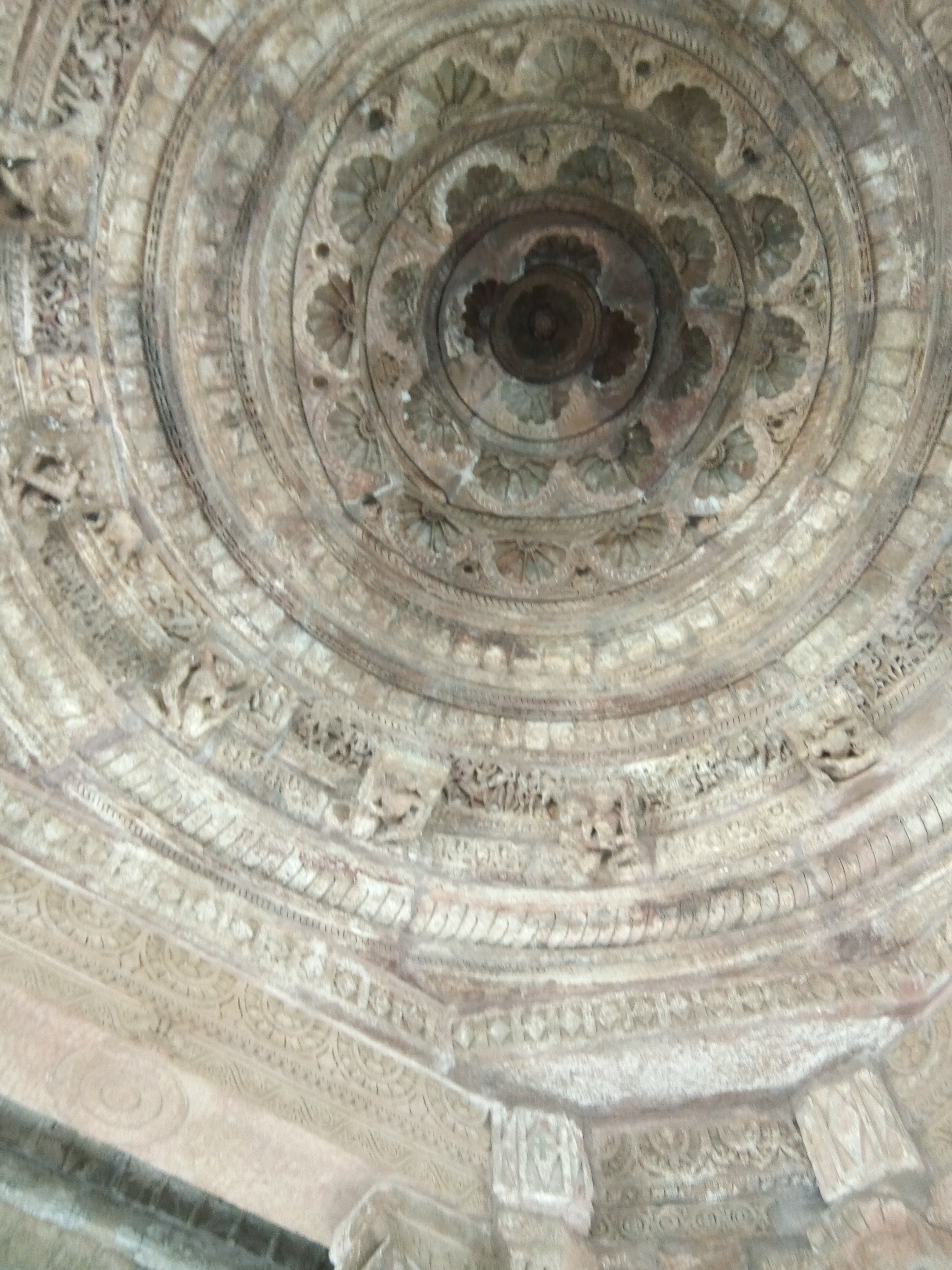 Galteshwar temple